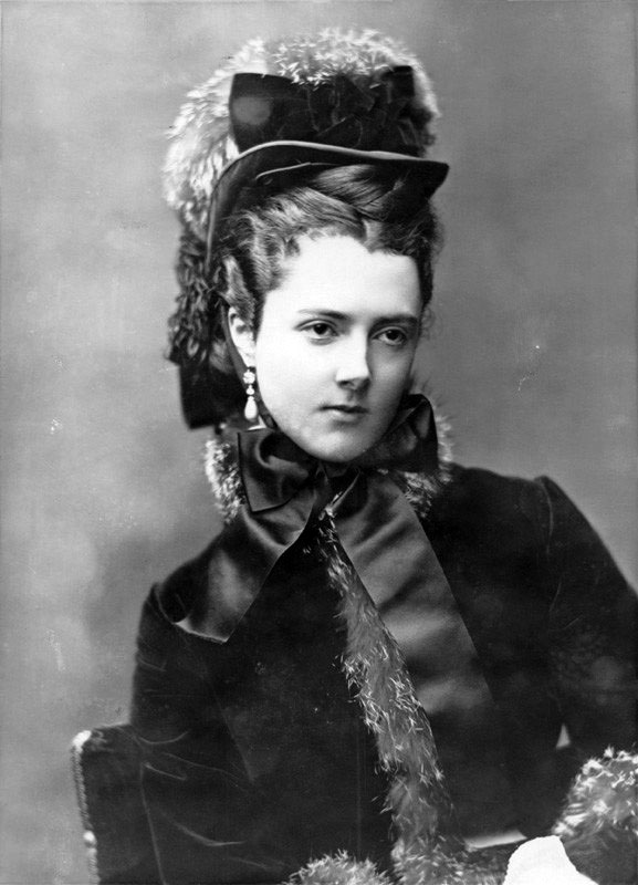 Georgina Ward, Countess of Dudley, by Alexander Bassano, vintage print, 1880s